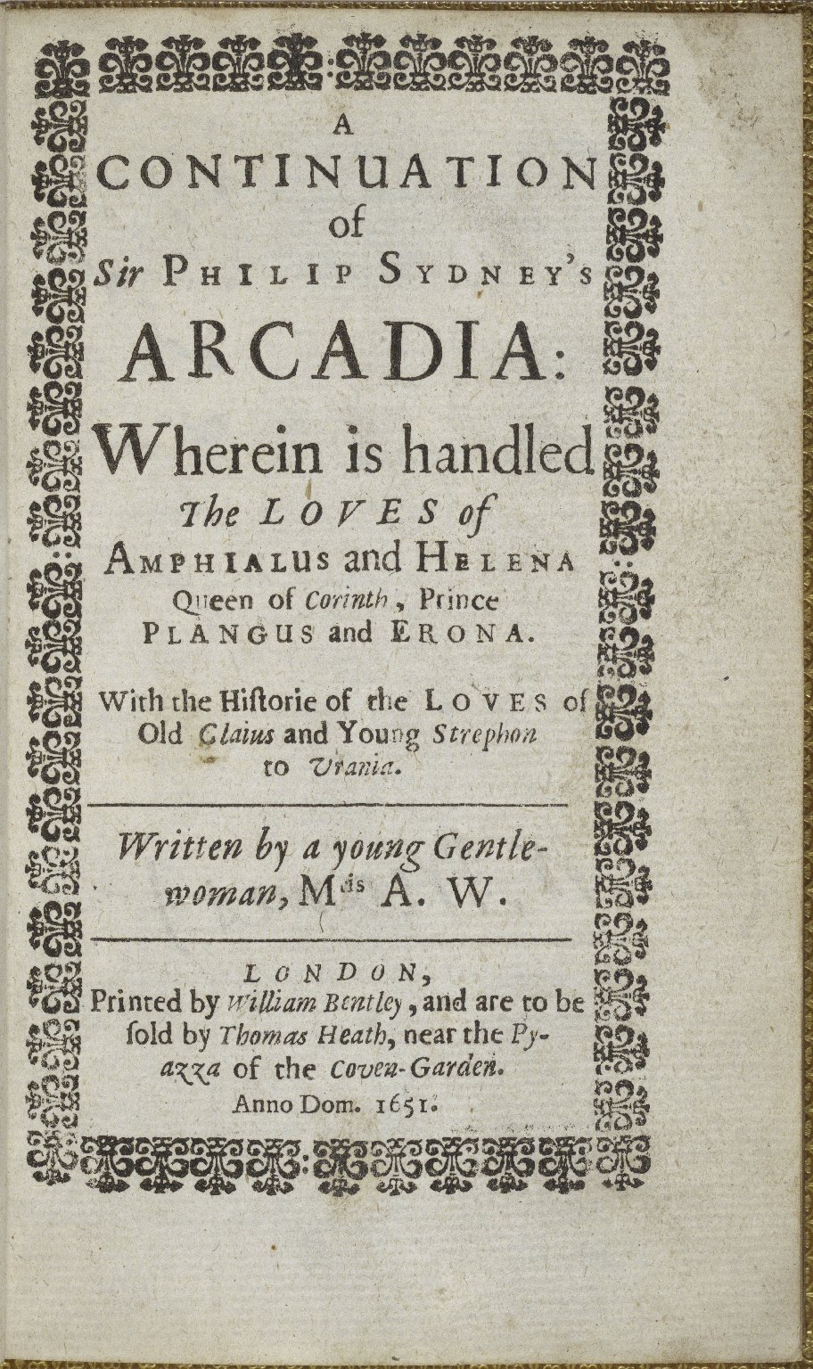 The title page of a 1651 edition of Anna Weamys' continuation of Sir Philip Sidney's Arcadia